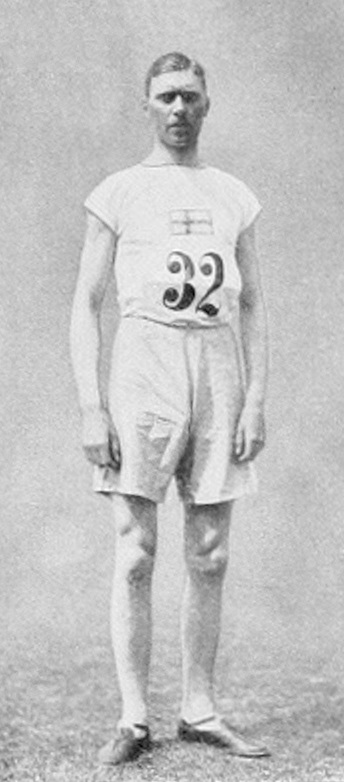 Gösta Lilliehöök at the 1912 Summer Olympics